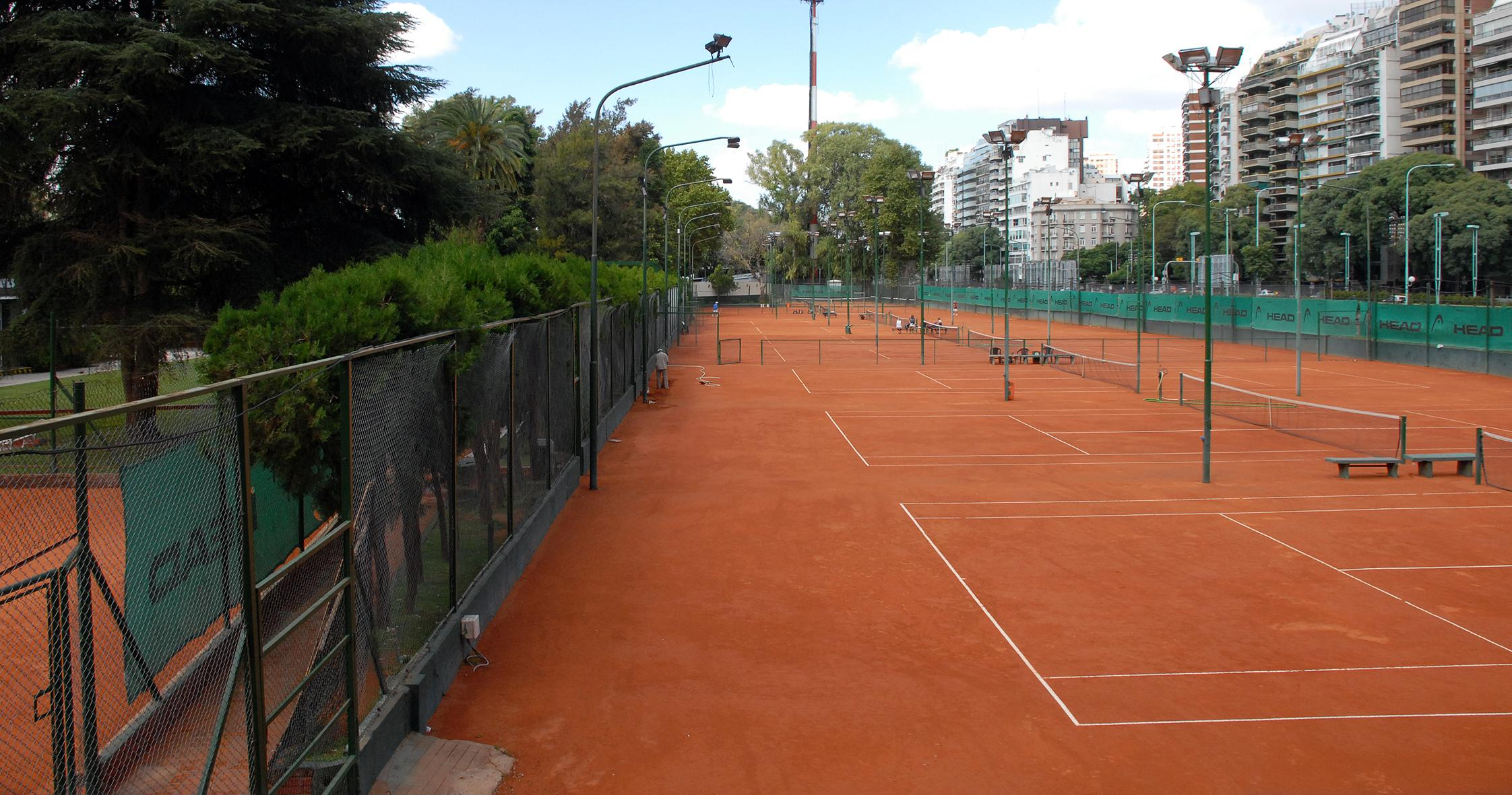 h3.